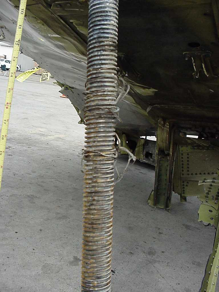 Jackscrew on N963AS of . Image of the horizontal stabilizer trim system jackscrew recovered from Alaska Airlines Flight 261 wreckage; the metallic filaments wrapped around it are remnants of the threads from the acme nut. Image retrieved from NTSB website URL